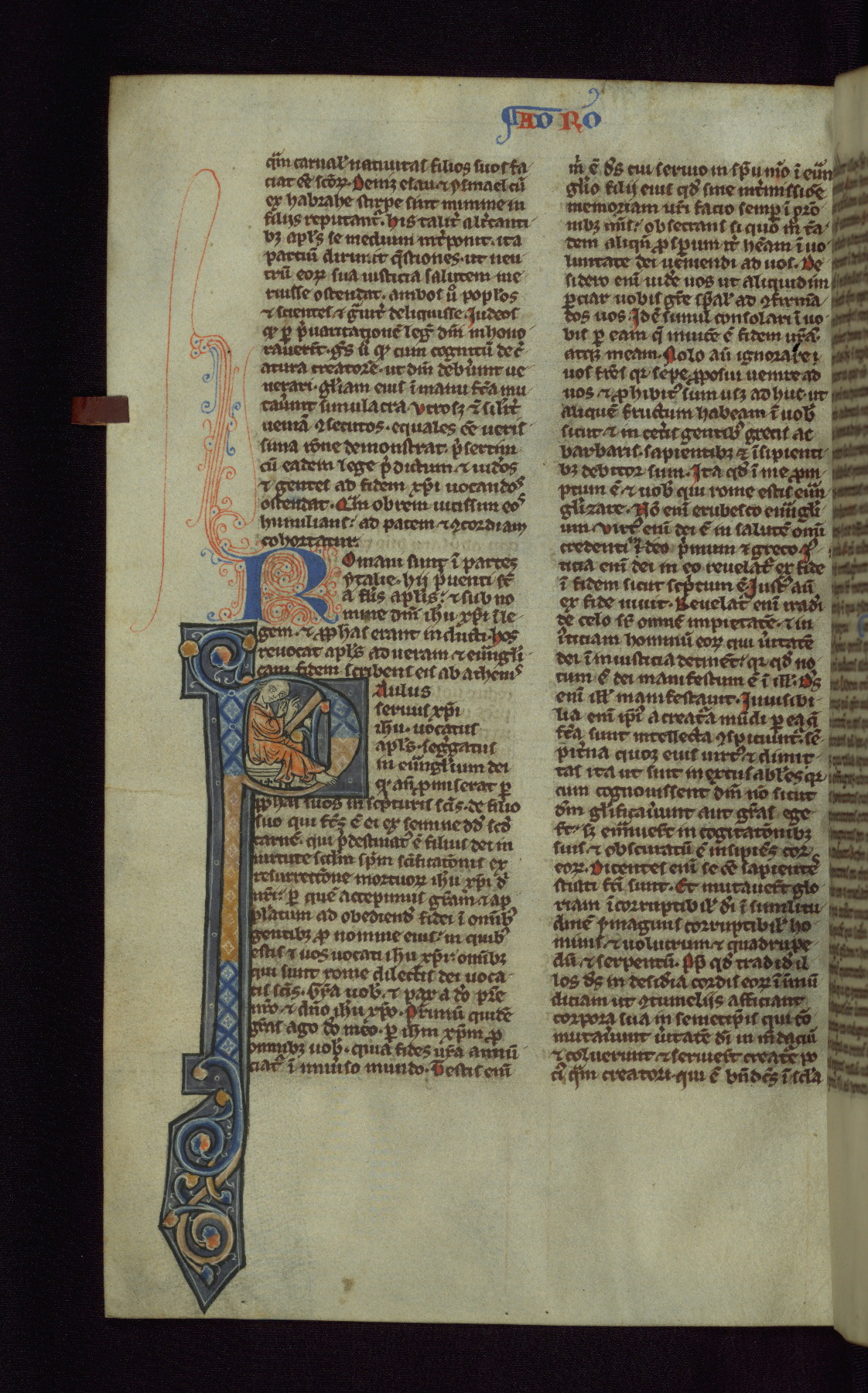 Leaf from an extant Paris Bible. Walters Manuscript W.51, fol. 477v